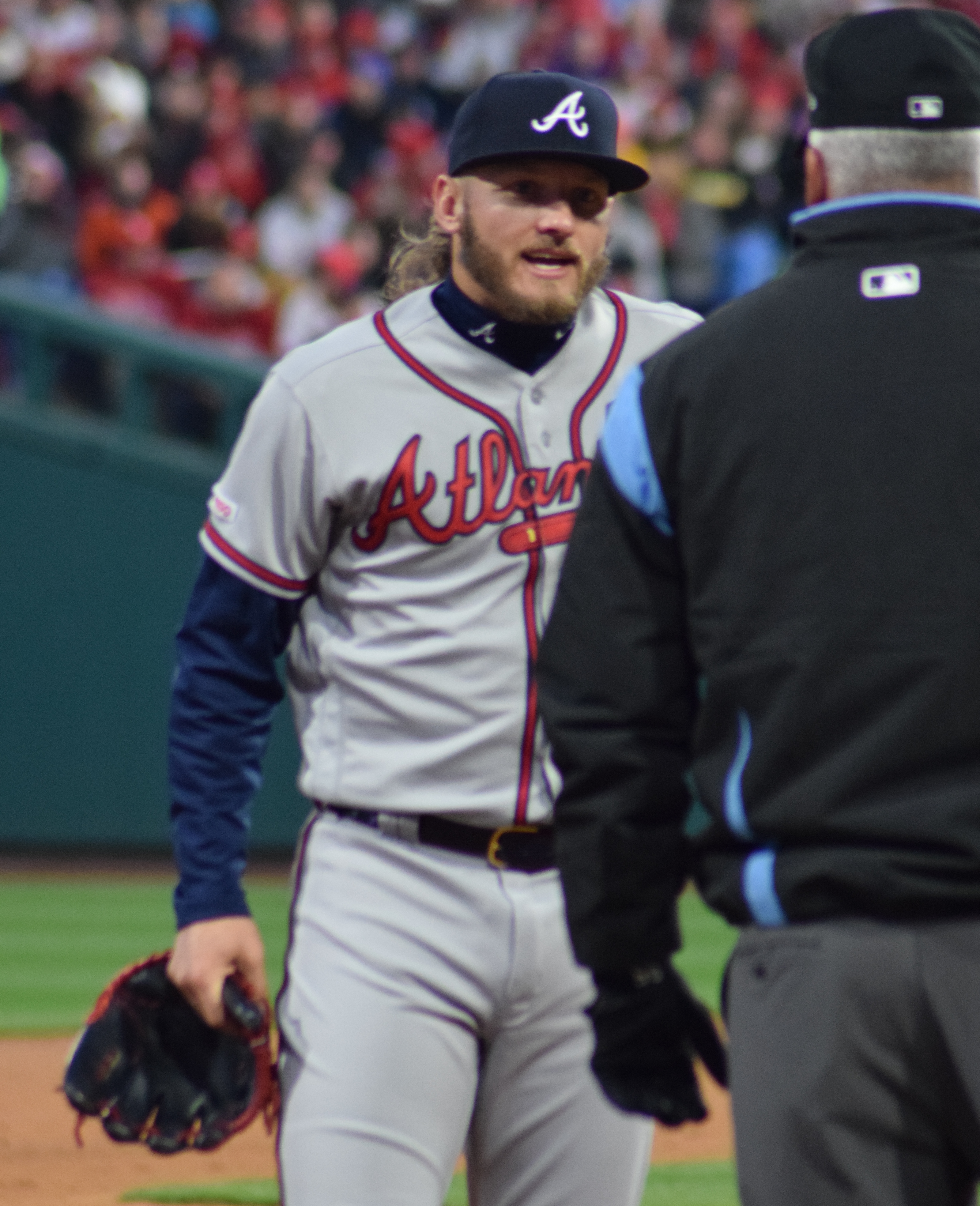 Josh Donaldson of the Atlanta Braves talks to an umpire during a 2019 game at Citizens Bank Park in Philadelphia